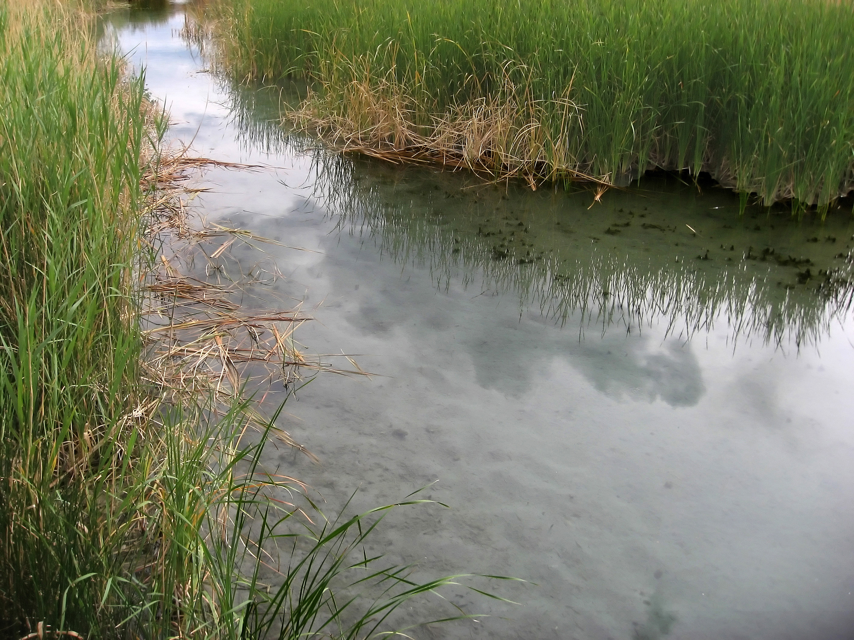 San Solomon Springs pour fourth about 28 million gallons of water a day. In the 1030 they harnessed this flow to create a large swimming pool. In doing so they essentially destroyed the marsh the spring had fed for thousands of years. Hunters probably gathered at these springs 11,000 years ago. In recent times an attempt was made to recreate the marsh.